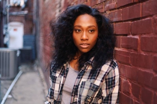 Lauren pictured in 2014 during a press photo op.